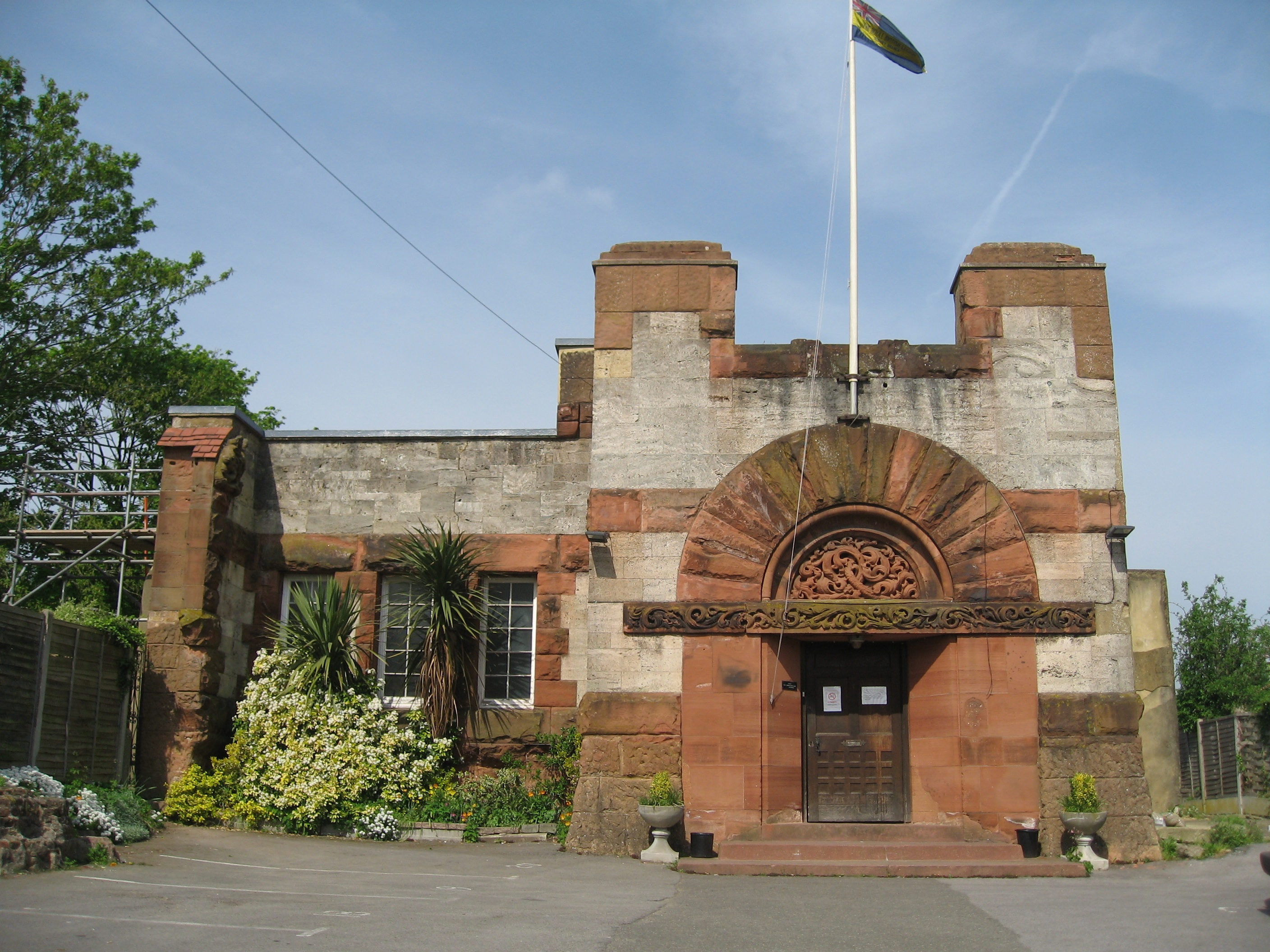 British Legion hall, Bushey, Hertfordshire, England. It is the remaining part of 19th century Lululaund mansion.